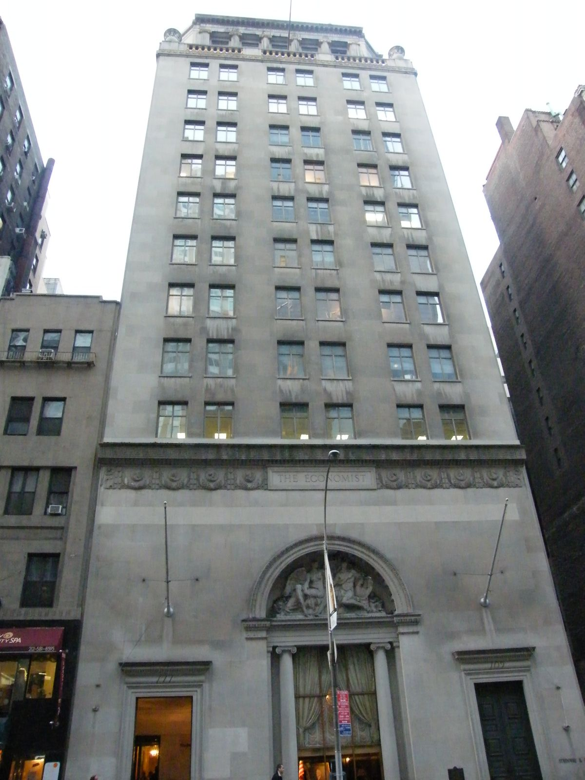 Steinwall Hall in Manhatten